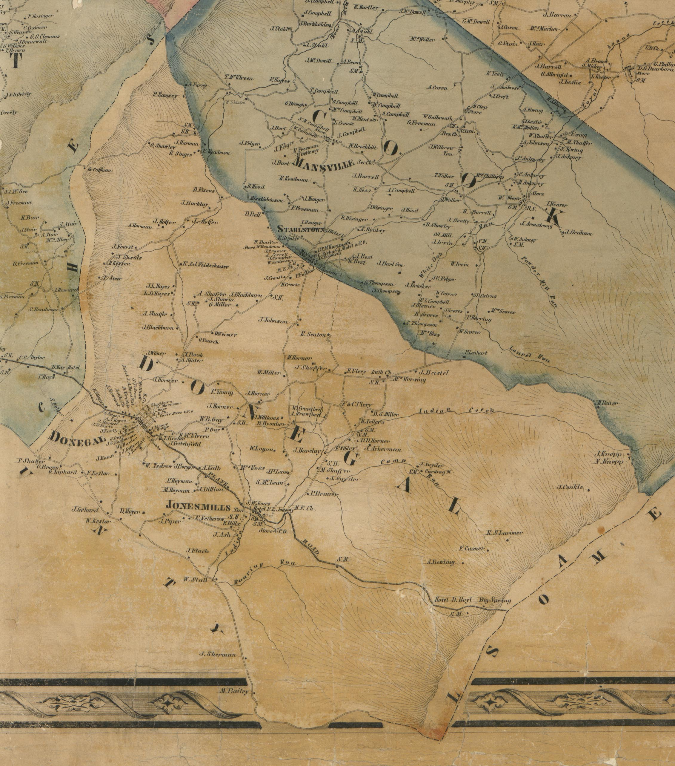 Map of Donegal Township taken from 1857 William J. Barker map of Westmoreland County, Pennsylvania, available at the Library of Congress website